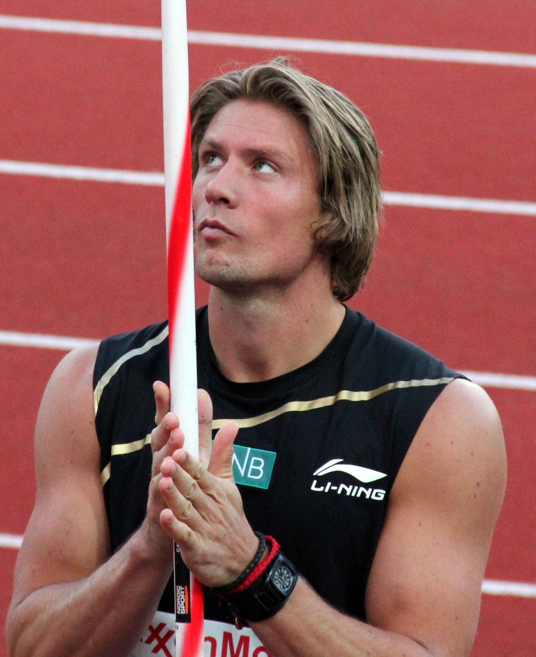 Andreas Thorkildsen under 2012 Bislett Games (reduced resolution)